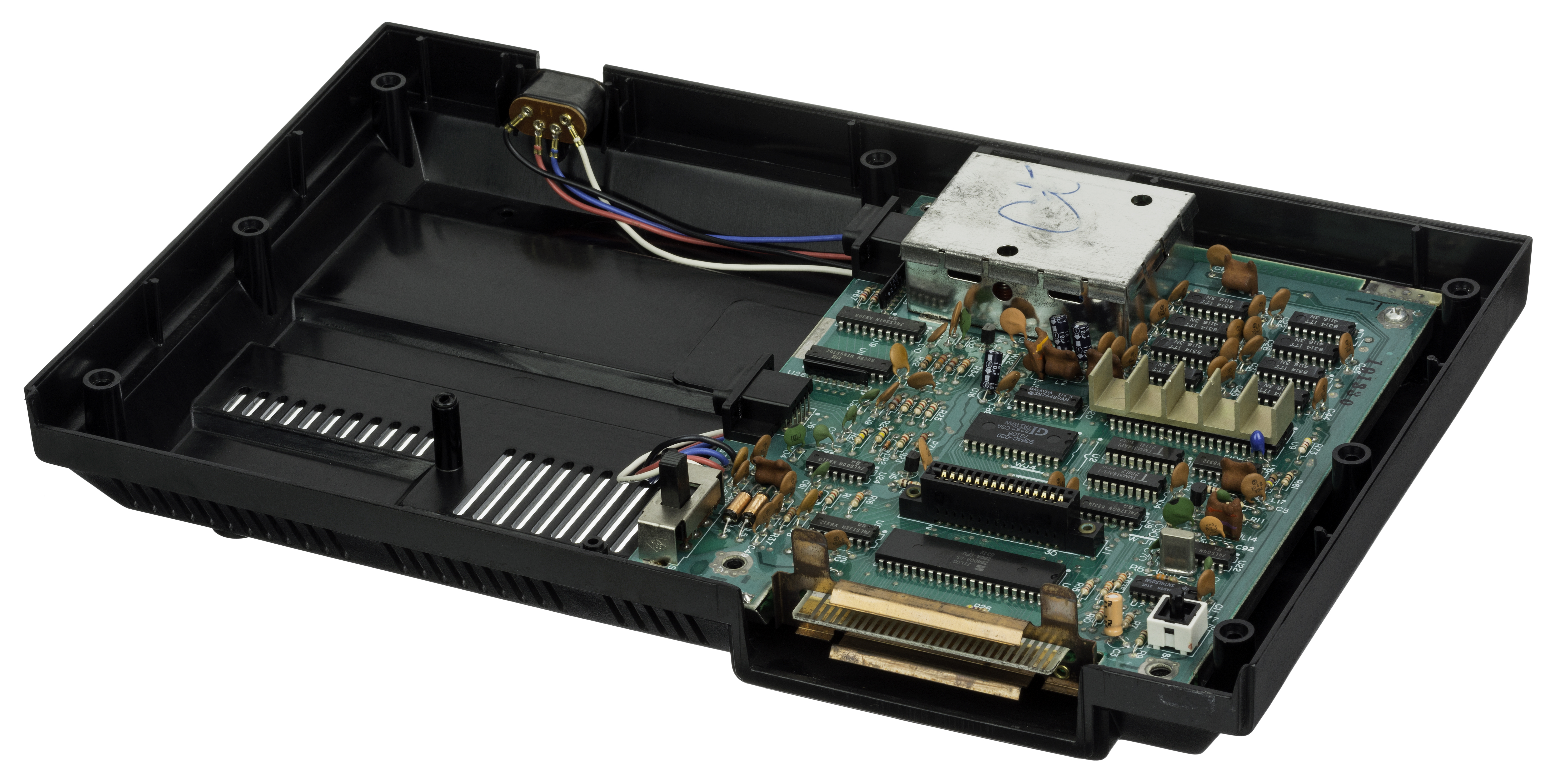 The inside of a ColecoVision gaming console, with the top and front casing removed. The RF shielding covering the motherboard has also been removed. The ColecoVision is a second generation gaming console released in 1982 by Coleco Industries. The ColecoVision faced off against the older Atari 2600, and enjoyed moderate success when released due to its higher quality arcade ports. By 1983, however, the video game industry crash greatly hurt all gaming console manufacturers, leading to Coleco Industries bowing out of the gaming industry by 1985.